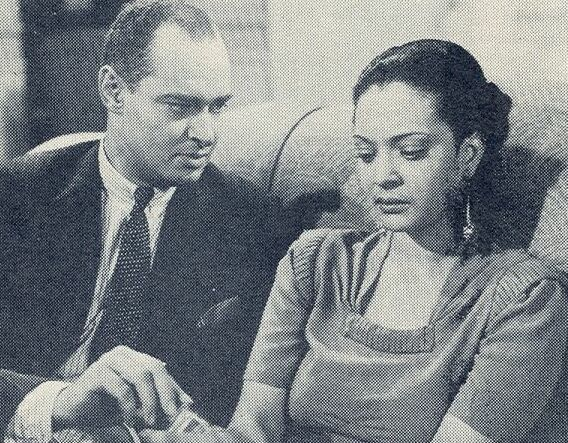 Jack Carter & Nina Mae McKinney in The Devil's Daughter - publicity still